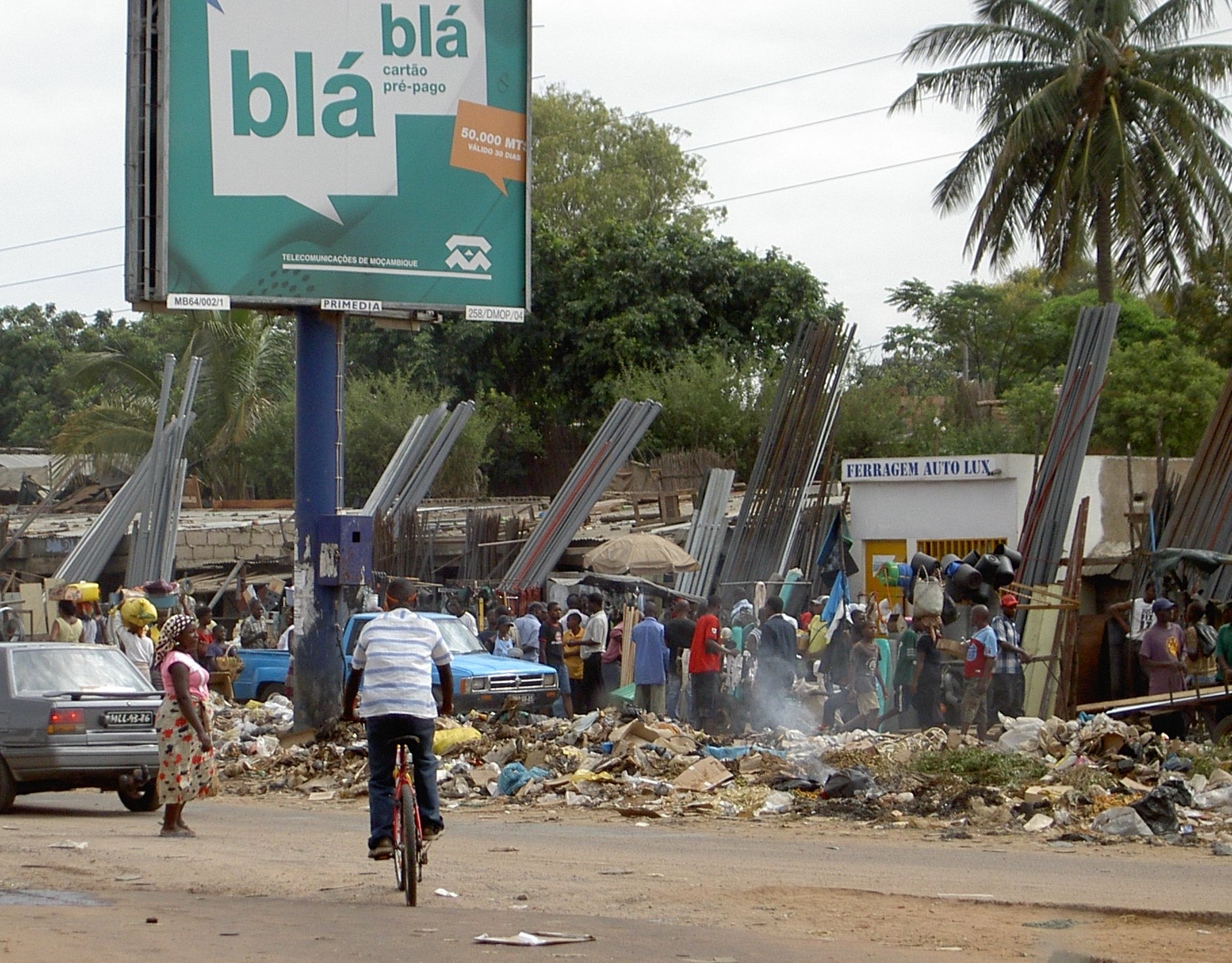 Xiquelene market, Praça dos Combatentes, Maputo, Mozambique